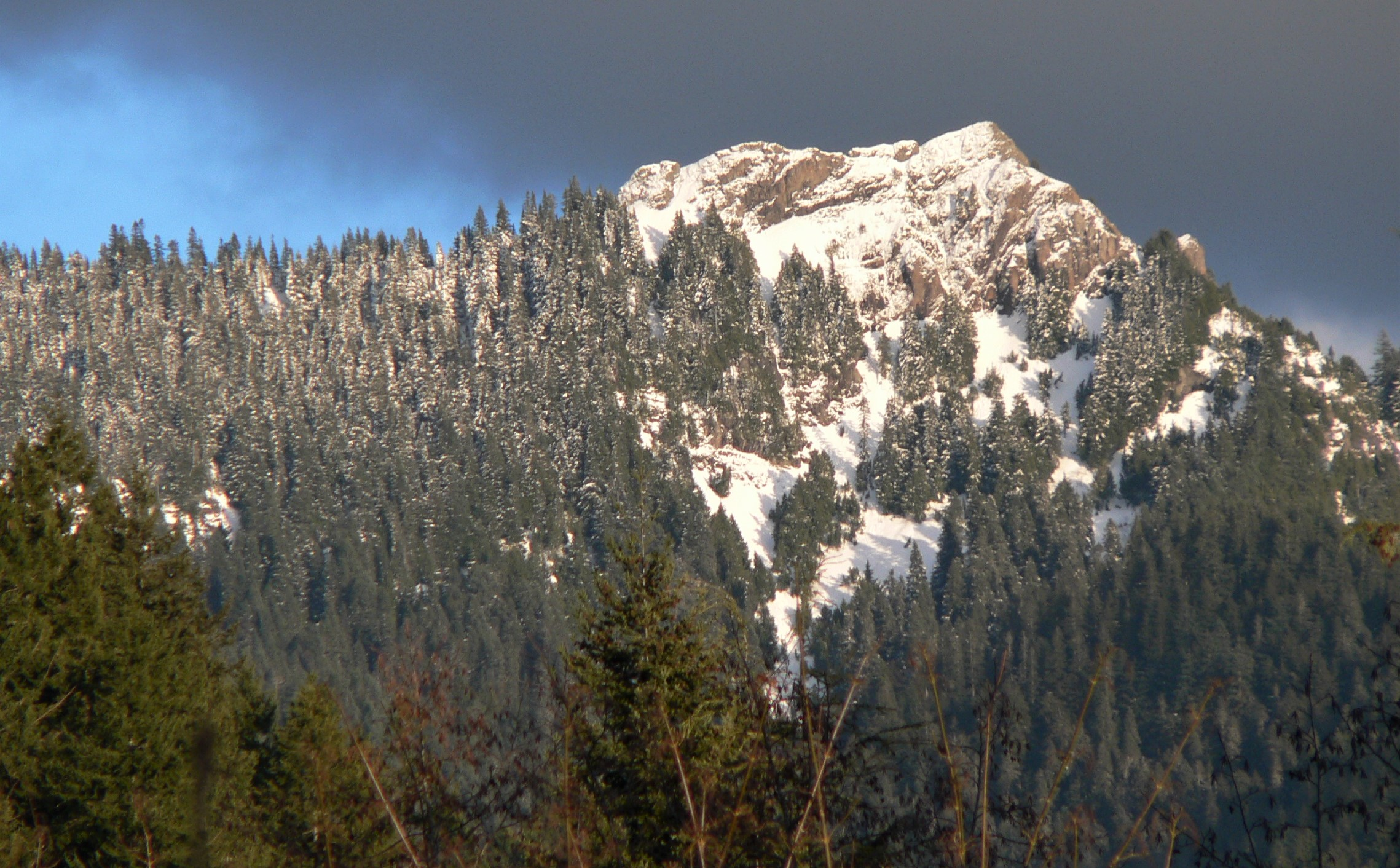 West face of Mount Wow from Ashford